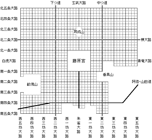 City compartment lines of Fujiwara-kyō